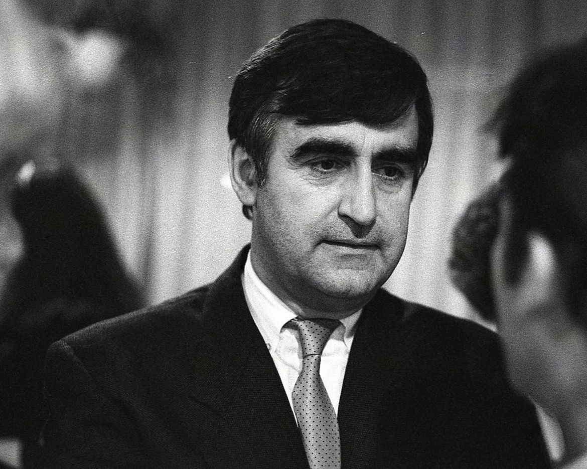 Lucien Bouchard, shortly after leaving the federal cabinet.